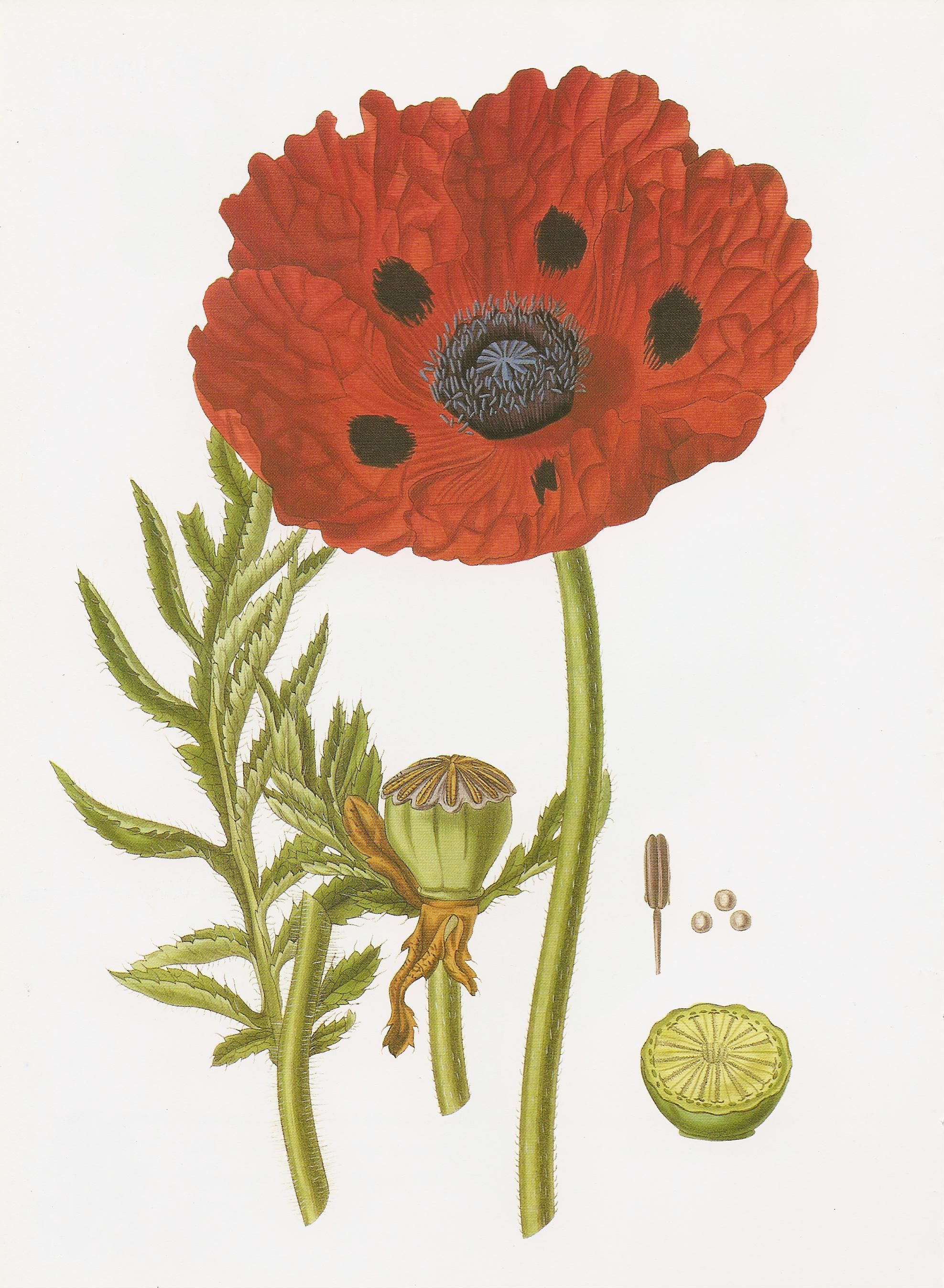 Papaver bracteatum, a hand-coloured engraving from John Lindley's Collectanea botanica (1821), of a plant both named and drawn by Lindley